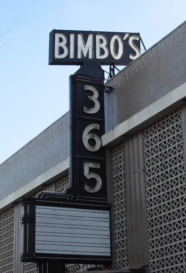 Photograph of the exterior sign (blade) of Bimbo's 365 Club in San Francisco, CA